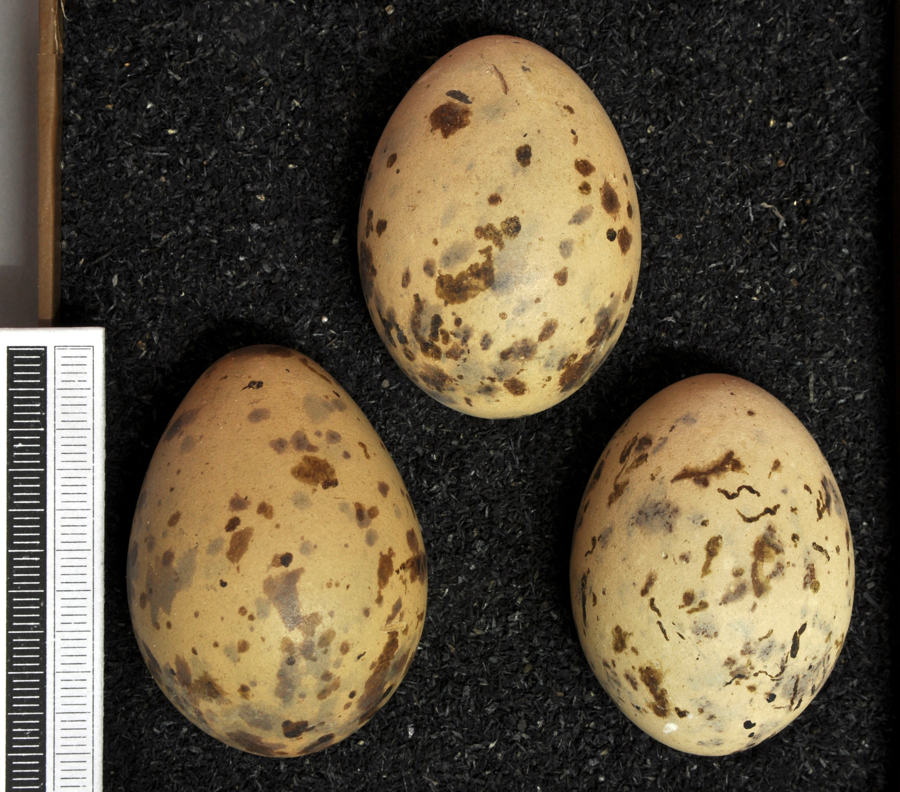 Black-headed gull Larus ridibundus , egg, Coll. Museum Wiesbaden